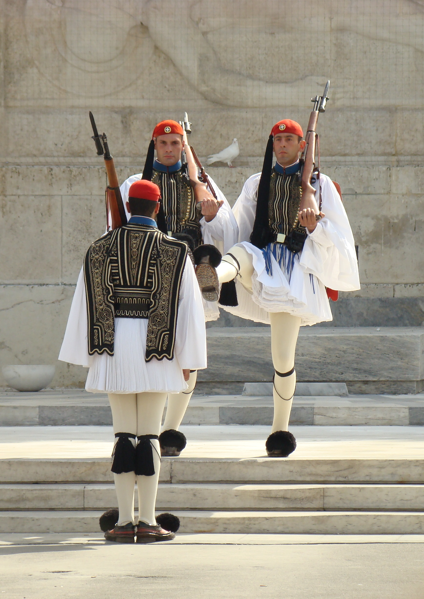 Changing of the Guard Evzones at the Tomb of the Unknown Soldier in Athens, Greece.